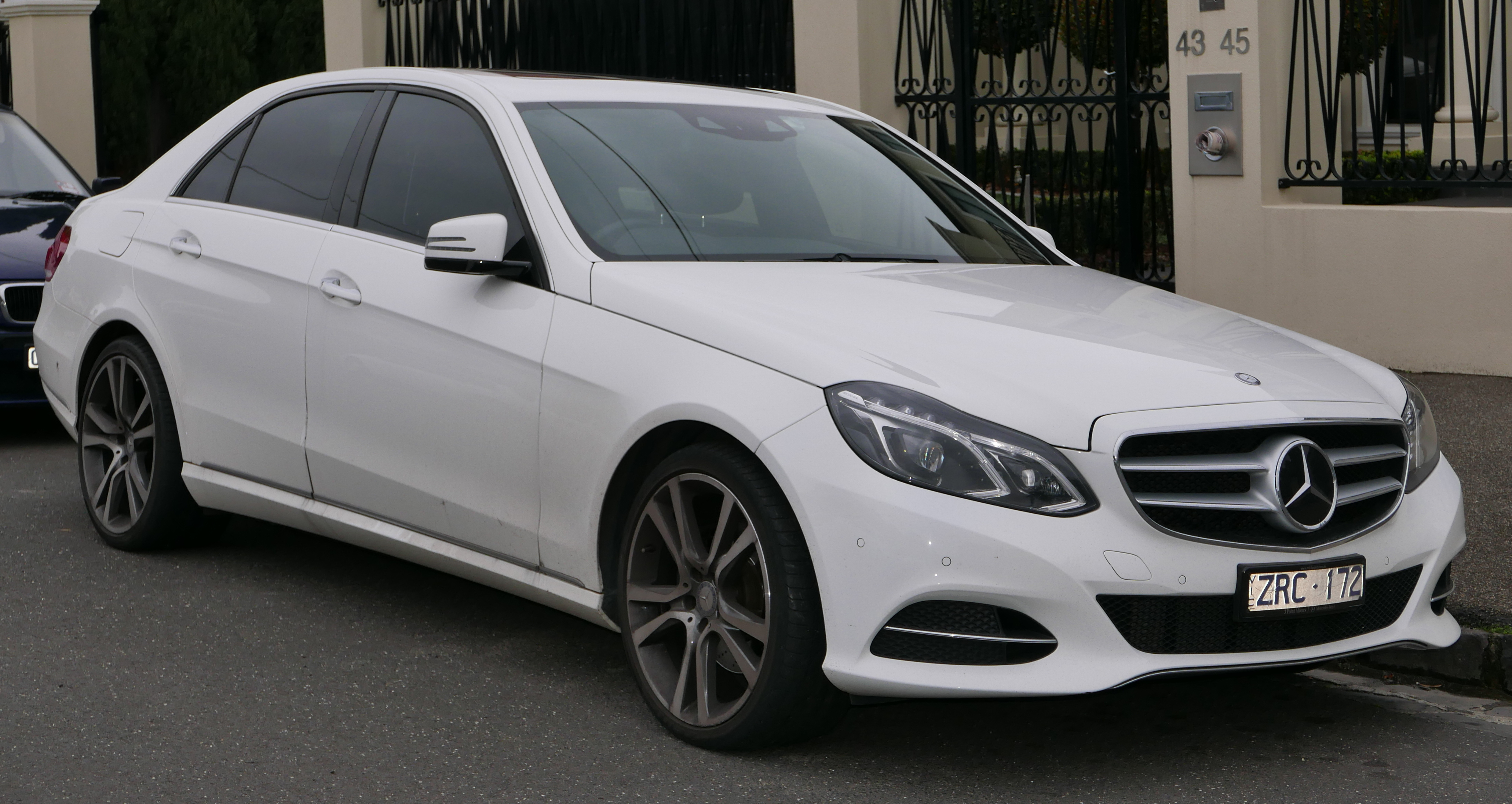 2013 Mercedes-Benz E 250 (W 212) sedan. Photographed in Fitzroy North, Victoria, Australia. Vehicle registration enquiry resultsJurisdictionVictoriaRegistrationZRC172Chassis codeWDD2120362A778188Engine code27492030050161Compliance date2013-05Year of manufacture2013